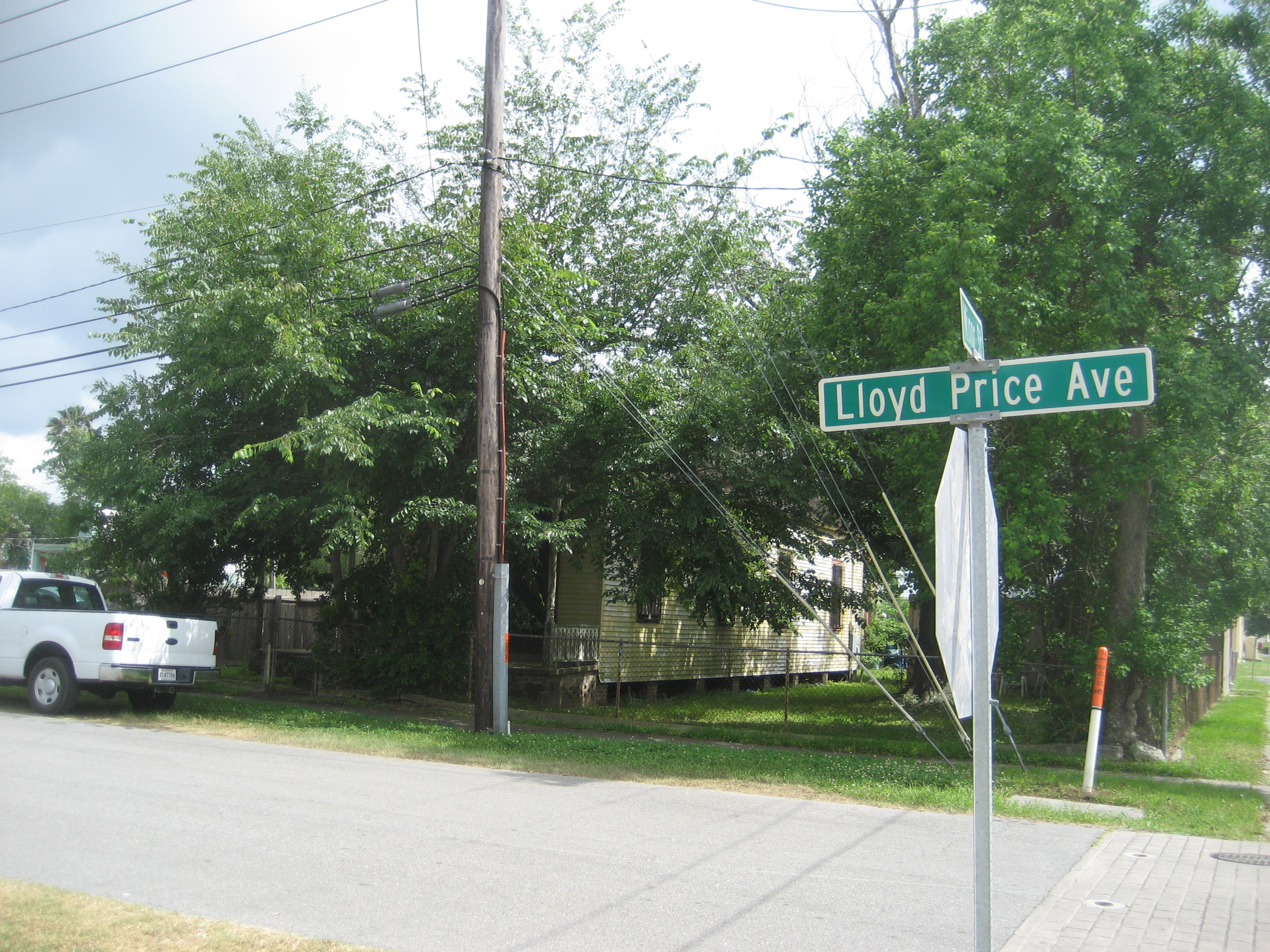 Residential architecture, Kenner, Louisiana.